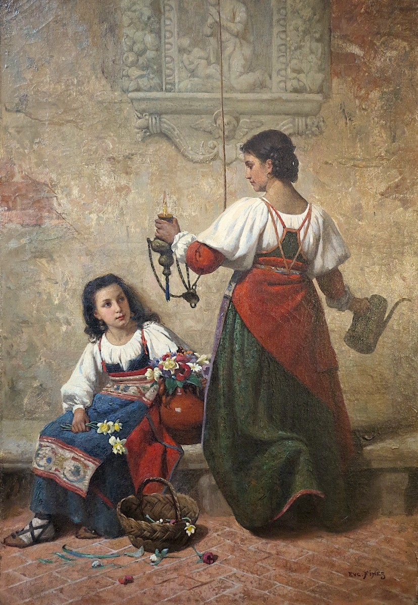 Peasant woman of San Germano